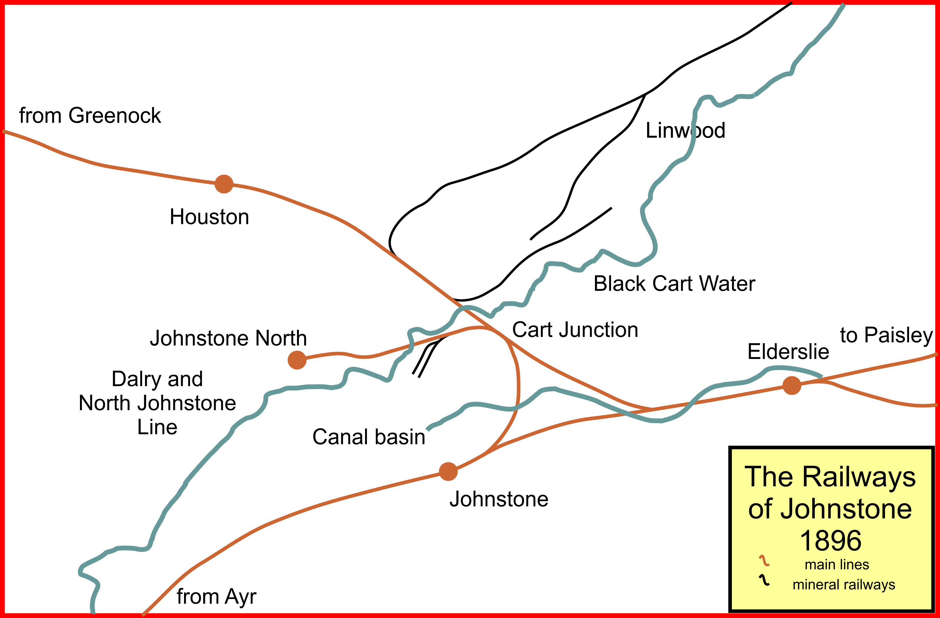 The Railways of Johnstone, Scotland, in 1896